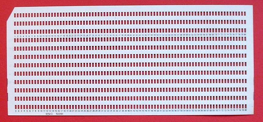 IBM lace card (all holes punched) This is a photogaph I took on August 11, en:2004 of an lace card punched on an IBM 1130/IBM 1442 in early en:1970s.